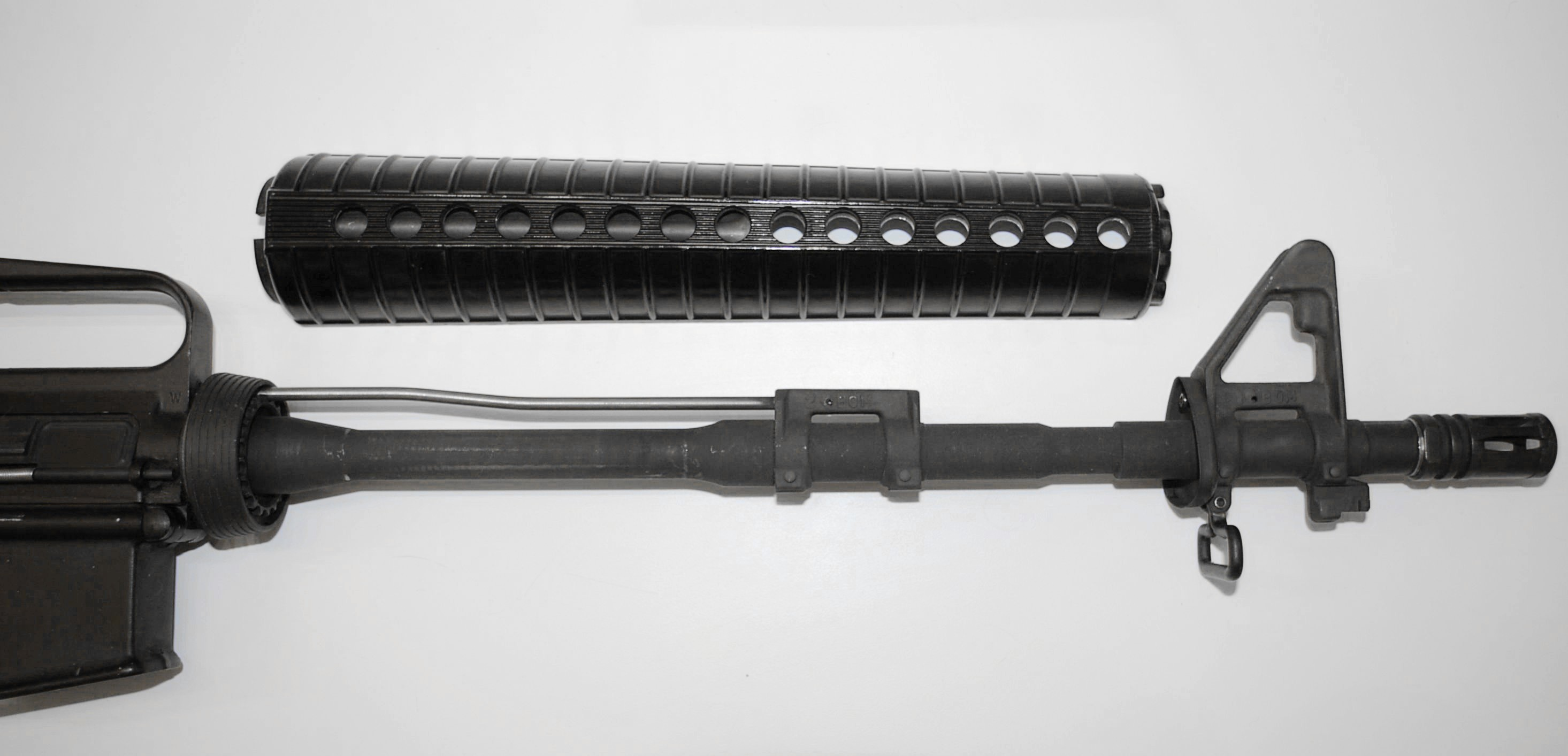 Bushmaster Dissipator barrel installed, showing the second, "shaved" gas block and short gas tube. This is the "M4 Cut" variant, with a contour similar to that of the M4 Carbines, which is the lightest weight Dissipator barrel available from Bushmaster.